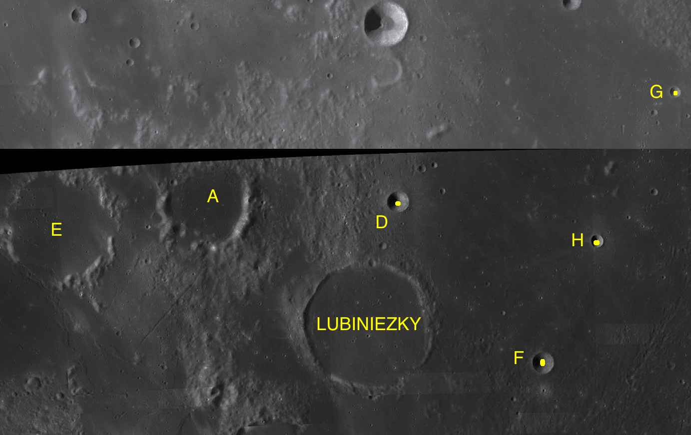 Parts of the charts LAC-76, LAC-94 used for the presentation